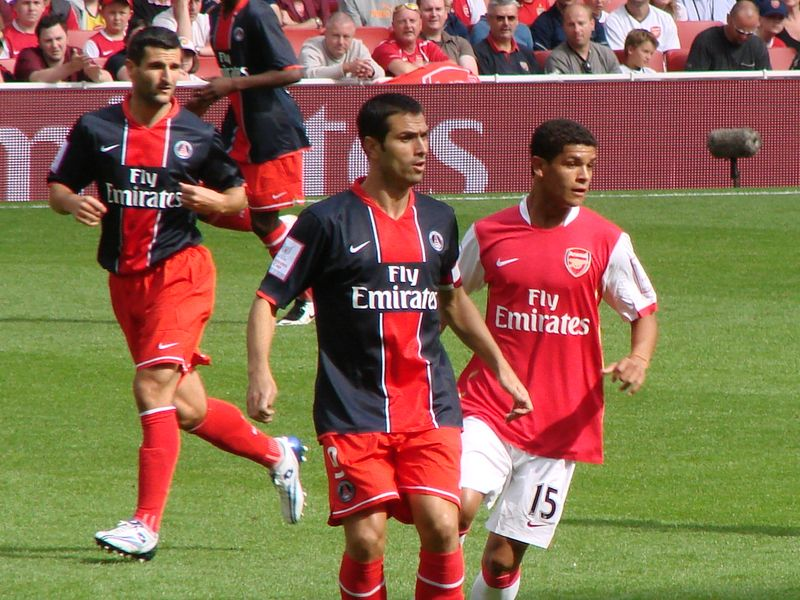 Pedro Pauleta and Pierre-Alain Frau from the Paris Saint-Germain during their match against Arsenal F.C. in the Emirates Cup (2007).